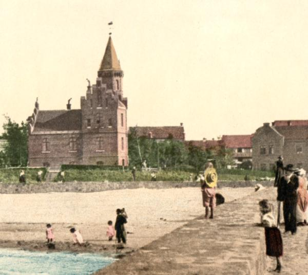 Ustka on old postcard, fragment - lighthouse.